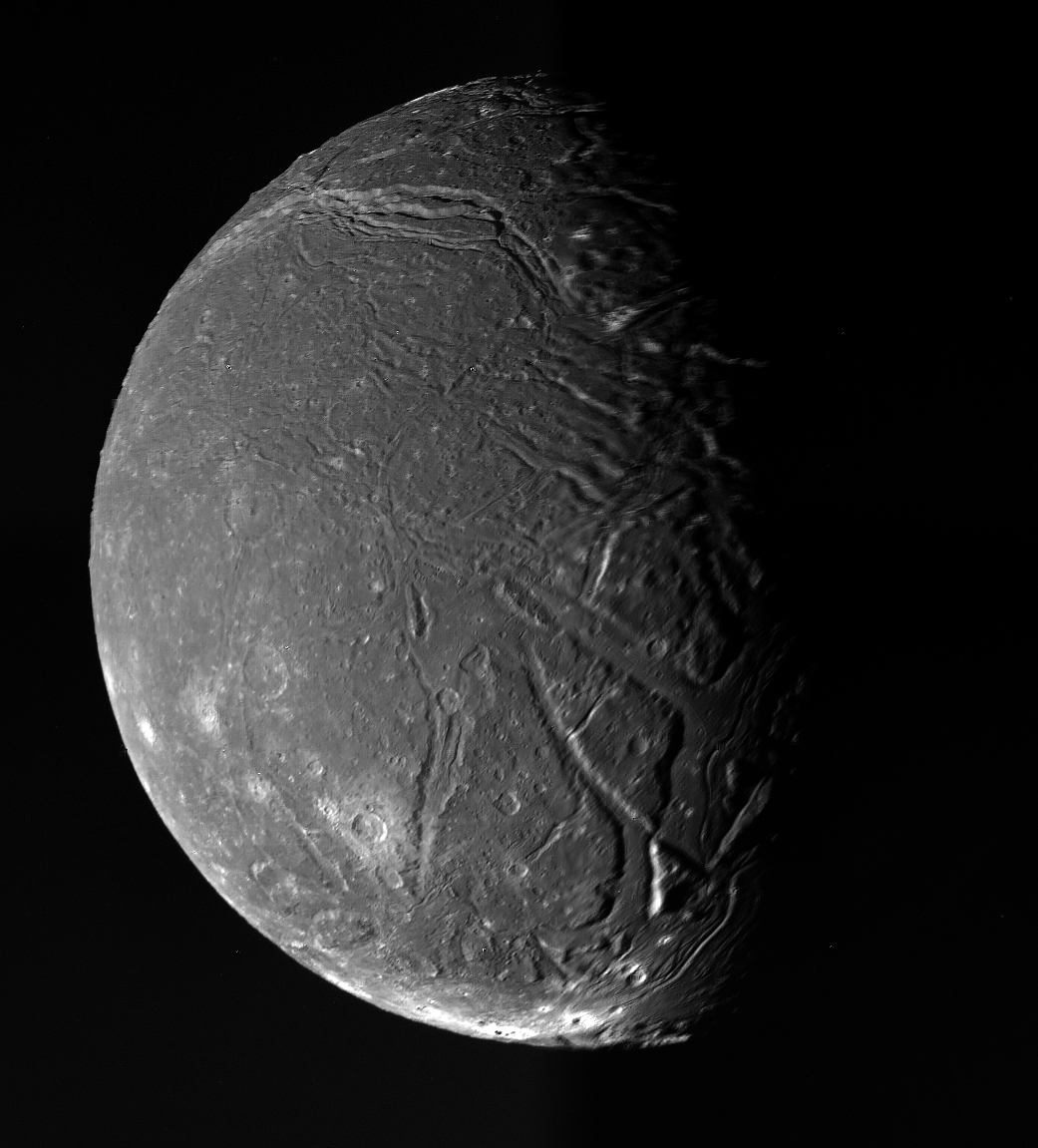 NASA/JPL-Caltech/Kevin M. Gill